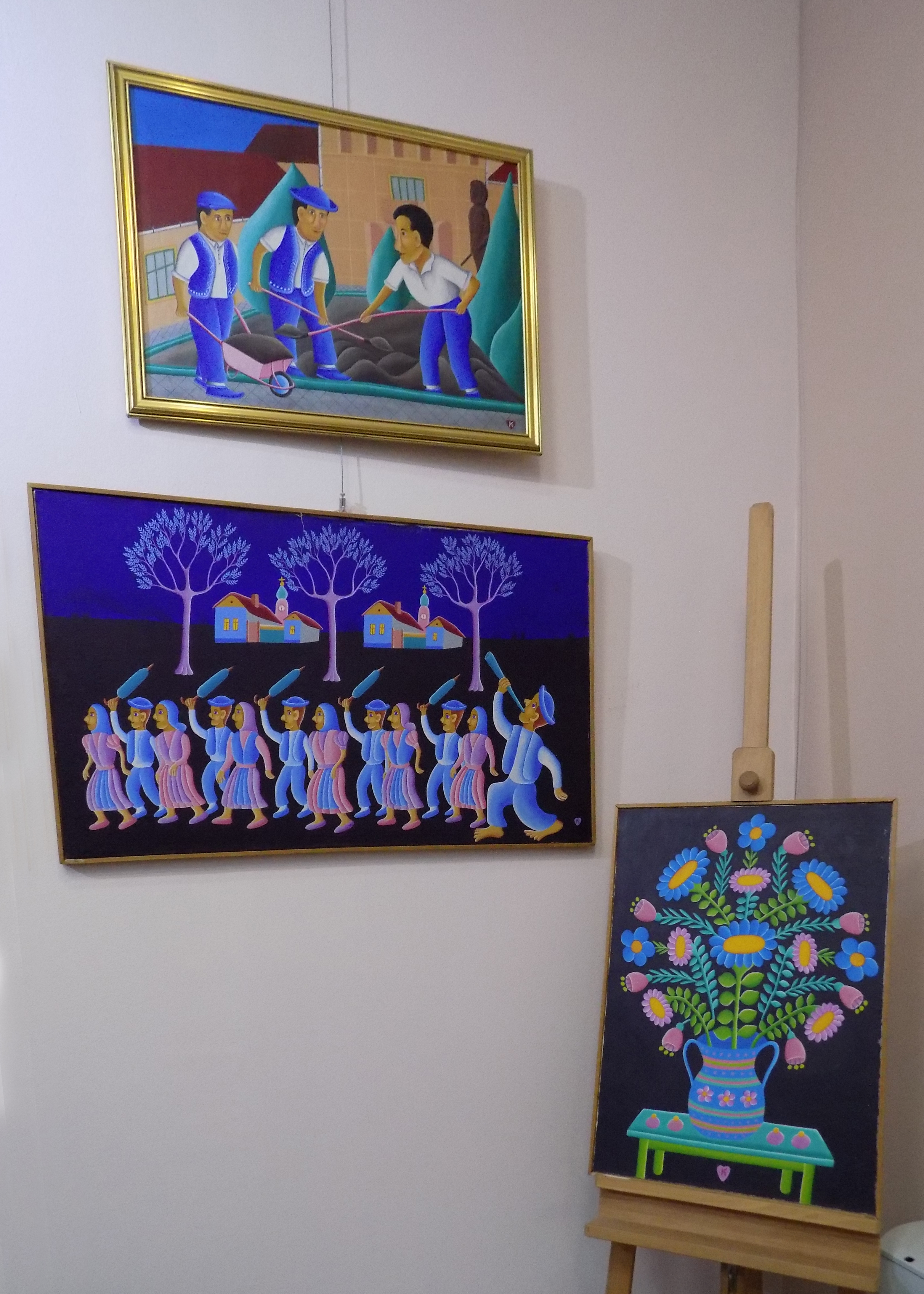 Paintings by Jan Knjazovic in the Gallery of Naive Art in Kovačica